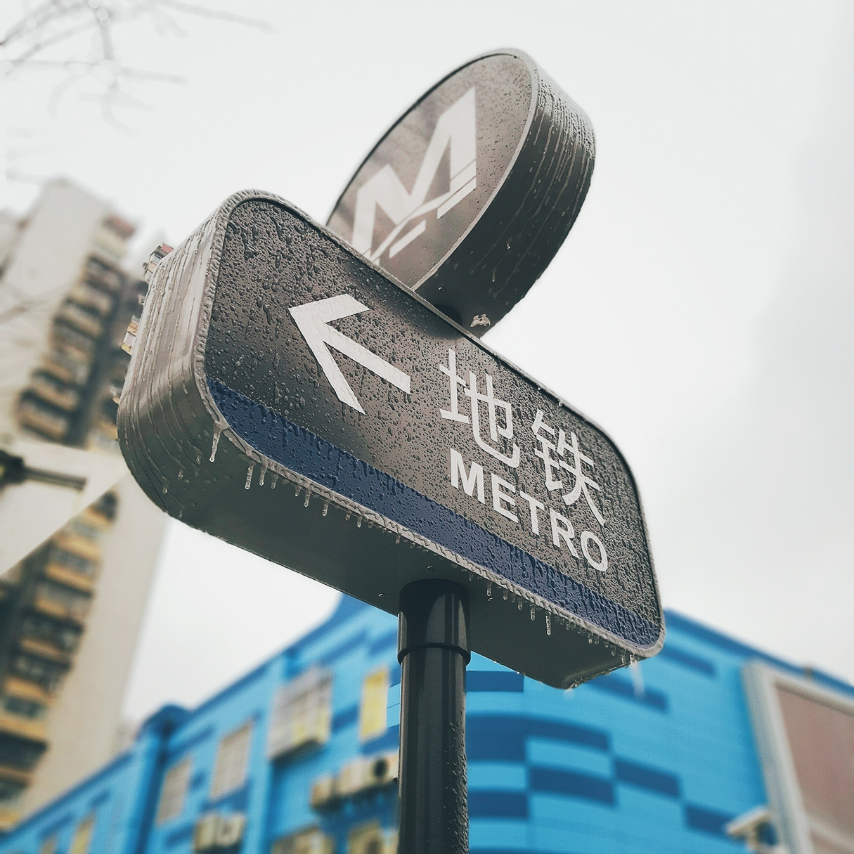 Signpost of Wuhan Metro